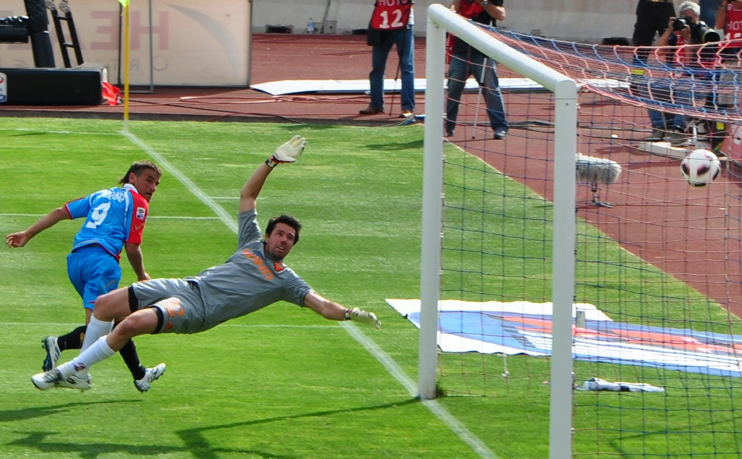 Gonzalo Bergessio and Doni